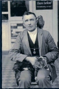 Max circa 1930 at his home in Farmington, Utah.